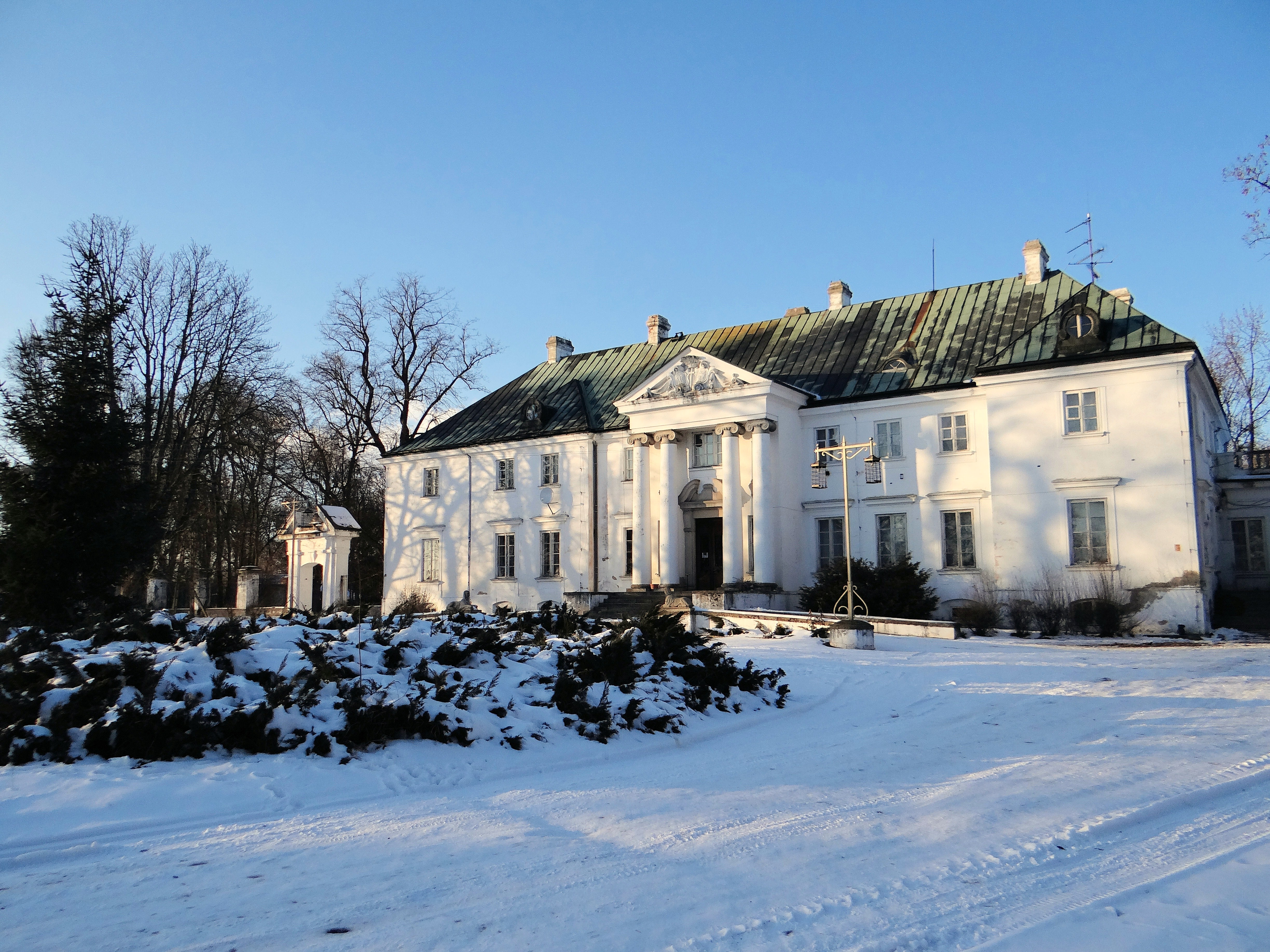 Palace in Luszyn